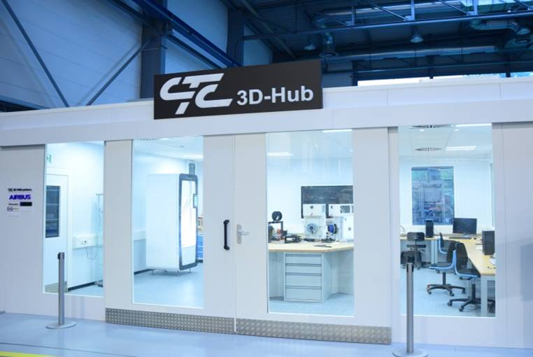 CTC GmbH - 3D-Hub